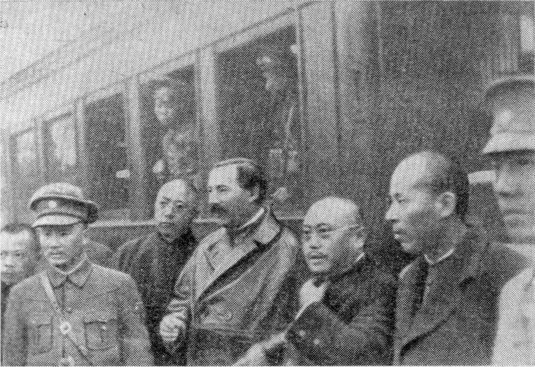 Departure from Nanchang. M.M. Borodin in the middle of the group.